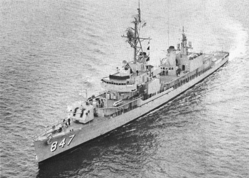 The U.S. Navy destroyer USS Robert L. Wilson (DD-847) after her FRAM I-modernization at the Philadelphia Naval Shipyard, in 1964.